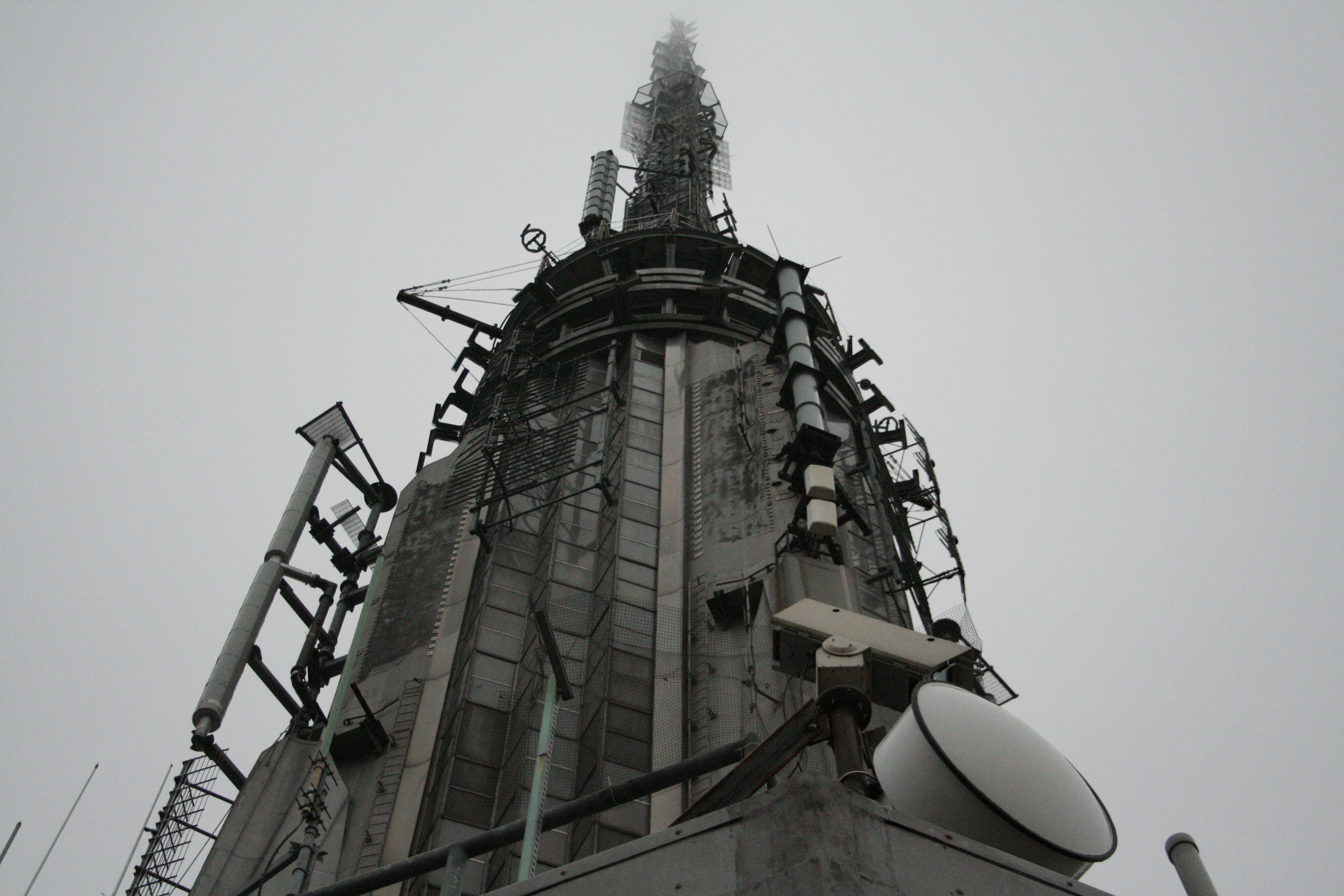 Empire State Building